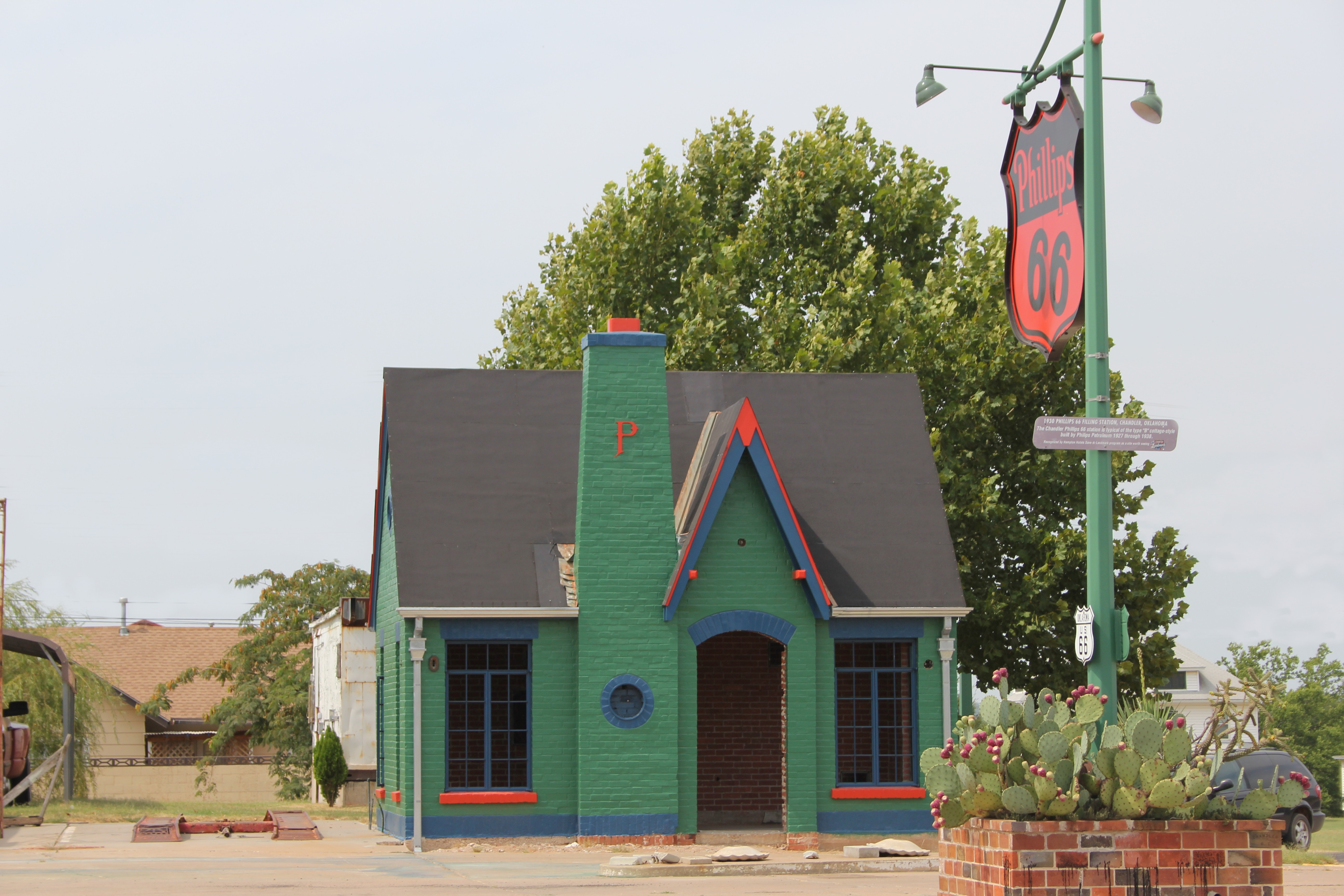 Phillips 66 Station No. 1423, 701 S. Manvel, Chandler, Oklahoma